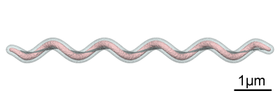 Schematic diagram of spirochaete.